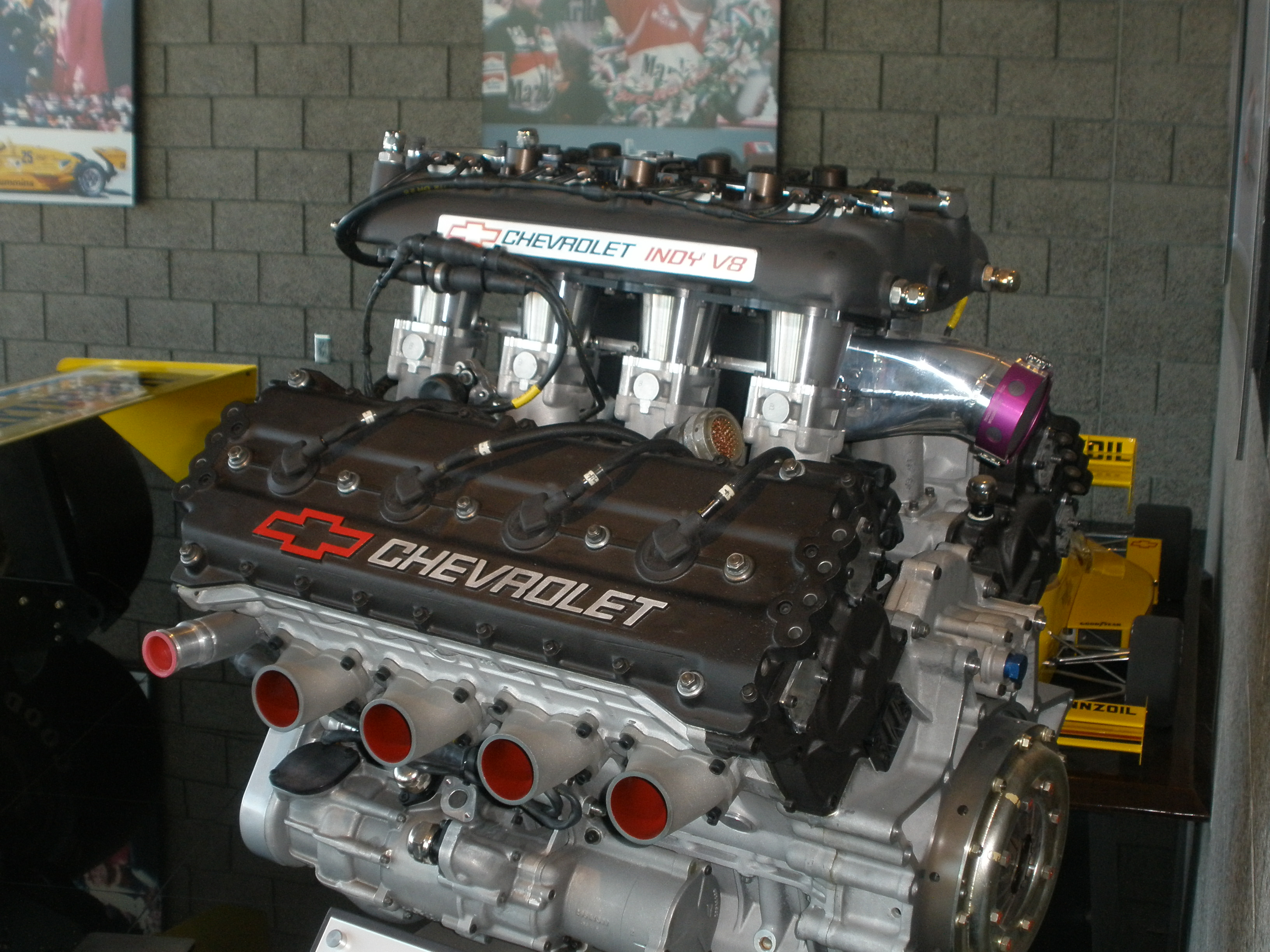 Photograph of the Ilmor Chevrolet Indy V-8 engine. This photo was taken at the Penske Racing Museum in Phoenix, Arizona